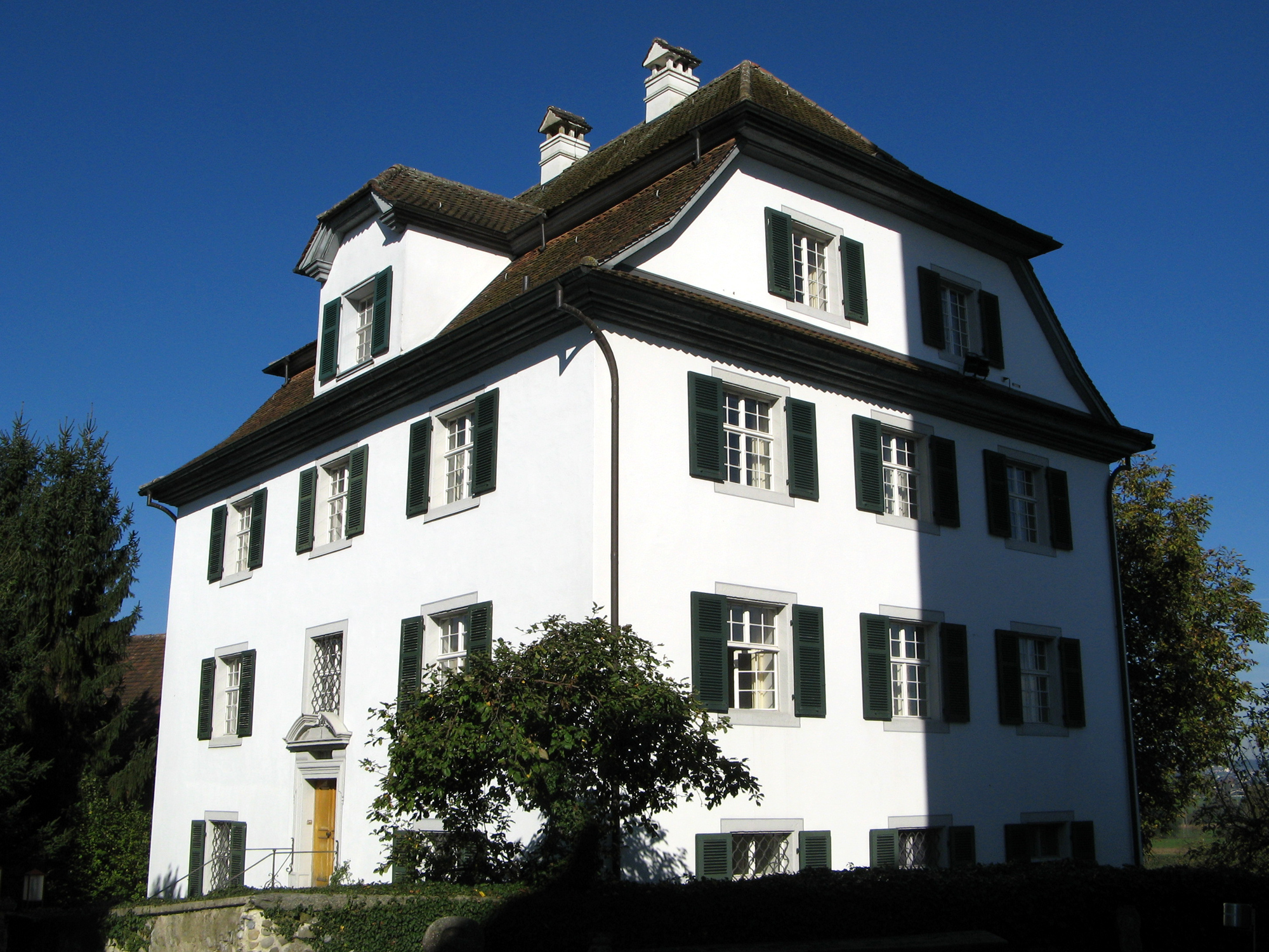 Artist's House (former rectory) in Boswil